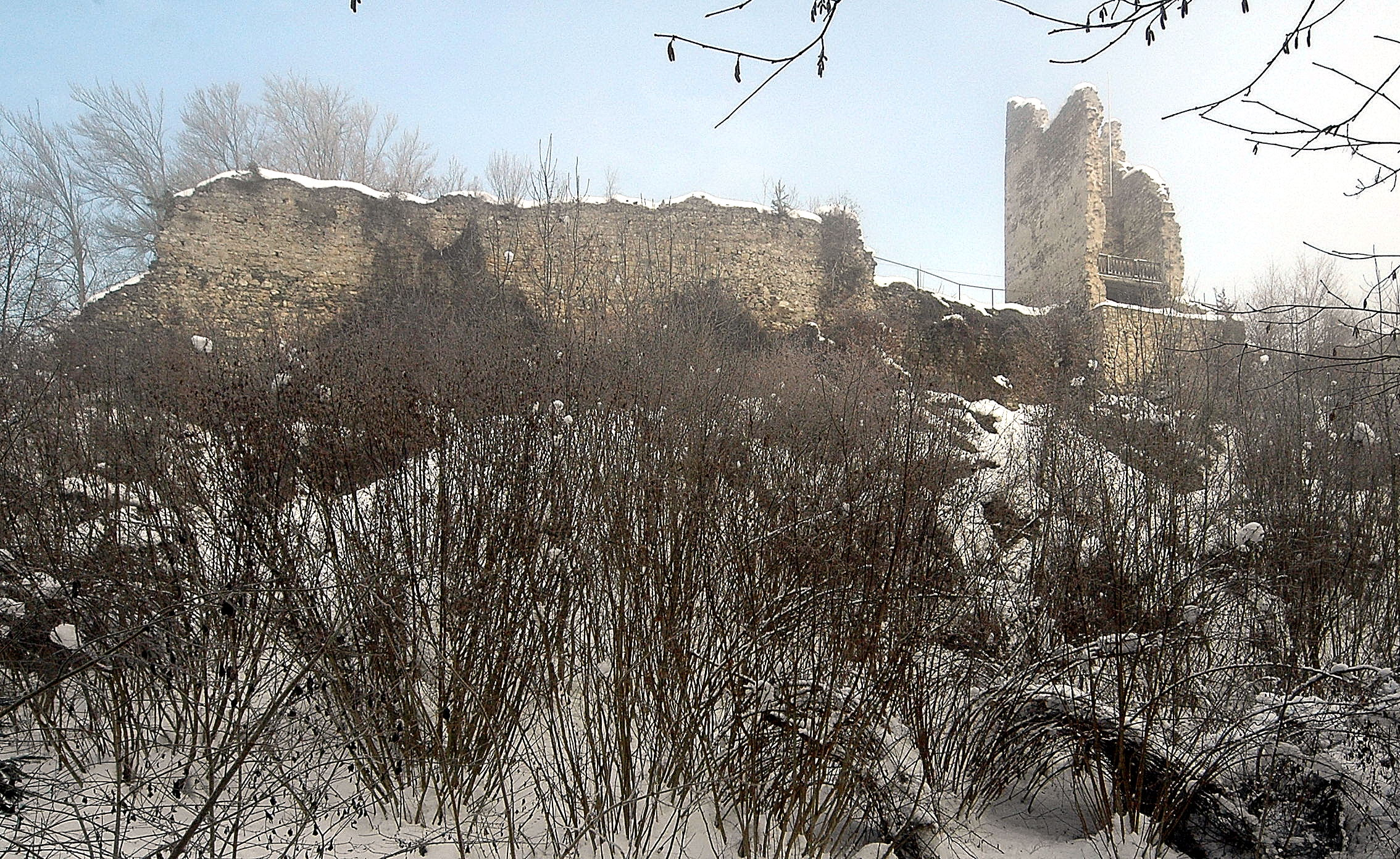 Castle ruin Leonstein, municipality Pörtschach am Wörther See, district Klagenfurt Land, Carinthia, Austria, EU